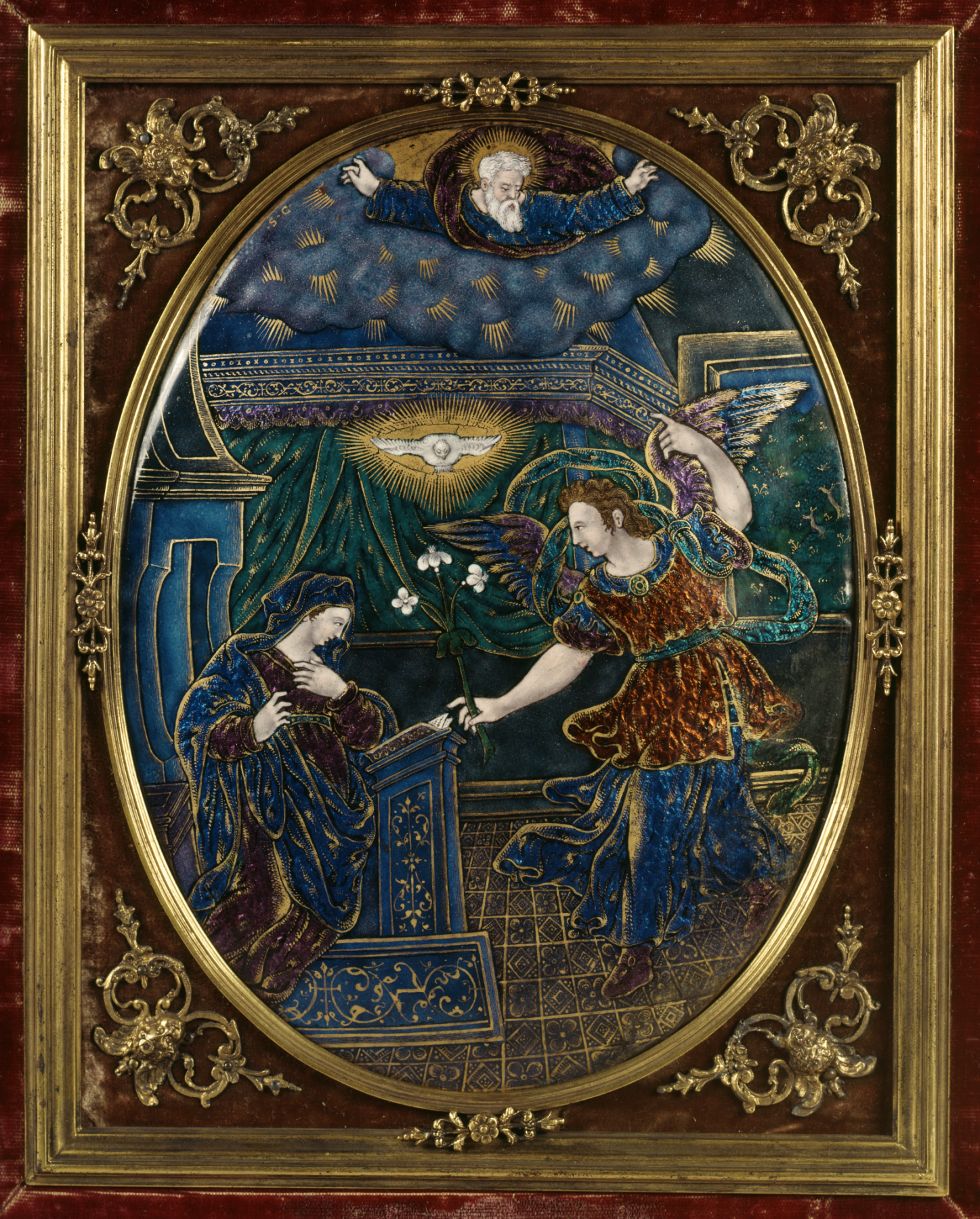 Monogrammed "S. C." in gold letters near the top of the left edge, this devotional plaque is by Suzanne de Court, the only woman enamel painter to sign her work (sometimes in full), but no dated pieces are known. Based on the same source as the Annunciation plaque by Jean Limosin (Walters 44.346), this piece is notable for the brilliance of the translucent enamel colors, especially the garnet red, and the delicately applied gilding, although the overall emphasis on surface pattern, dazzling though it is, nearly flattens out the space.